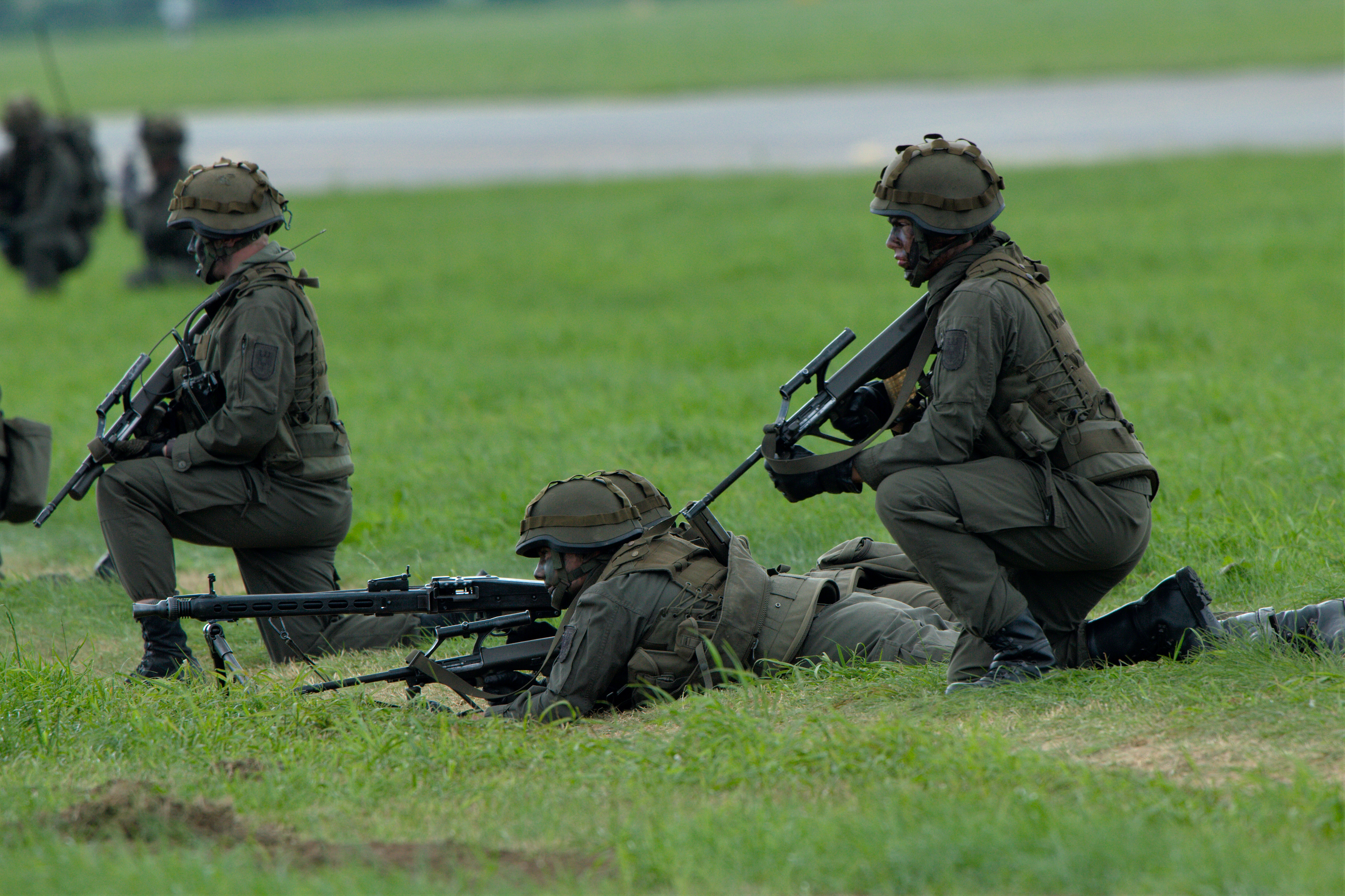 Demonstration of Bundesheer at Airpower11